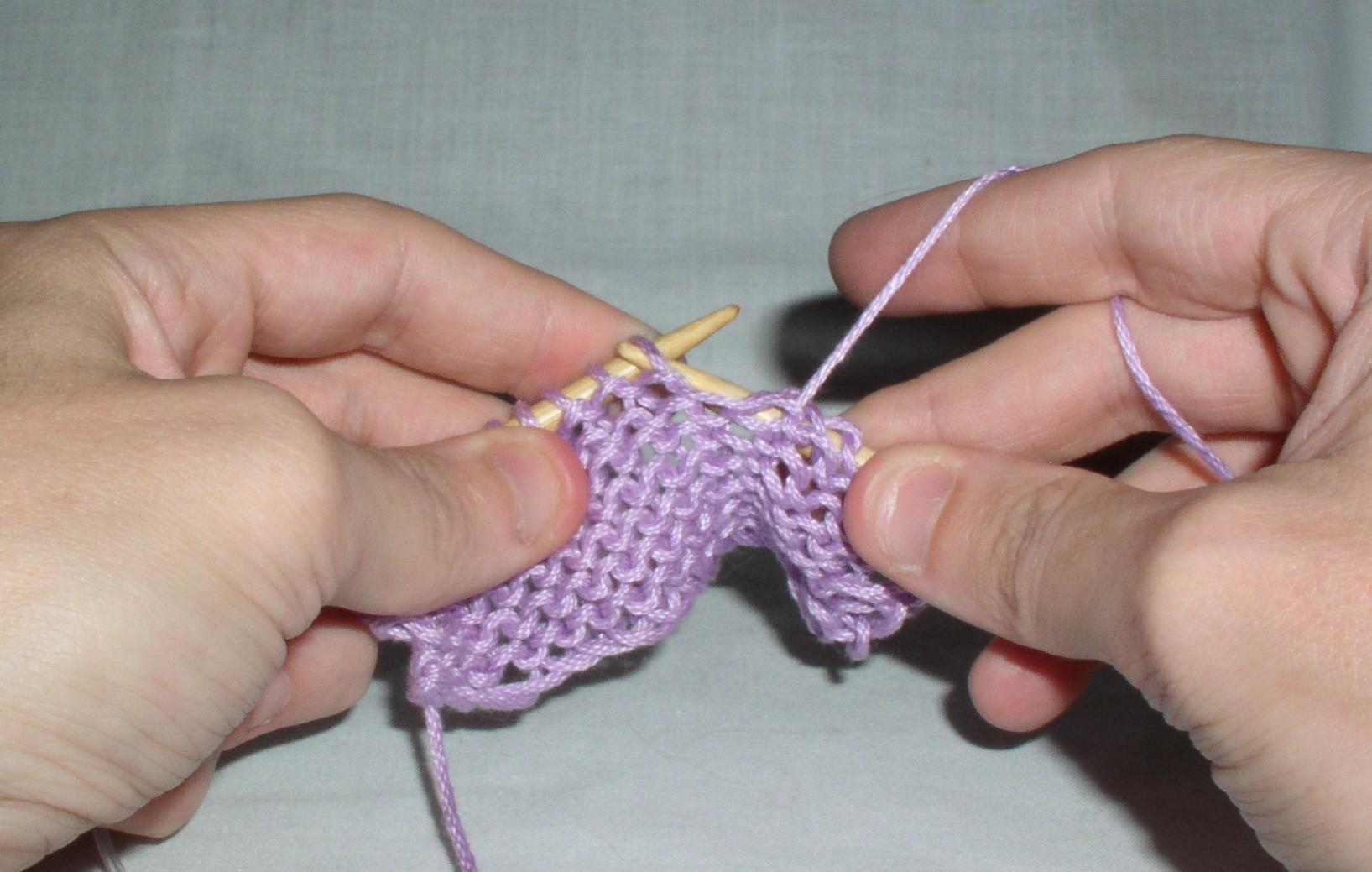 Purling (English or "right-hand" style), step 1: insert needle. Photo taken by me, of me, in August 2005. First in a series (next).